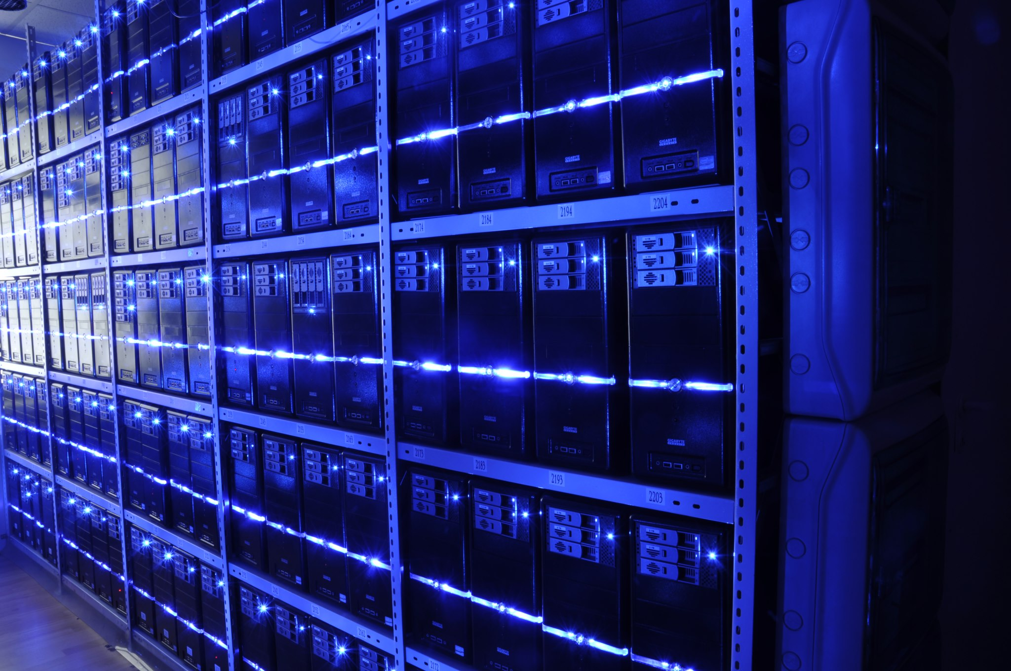 Server room of BalticServers